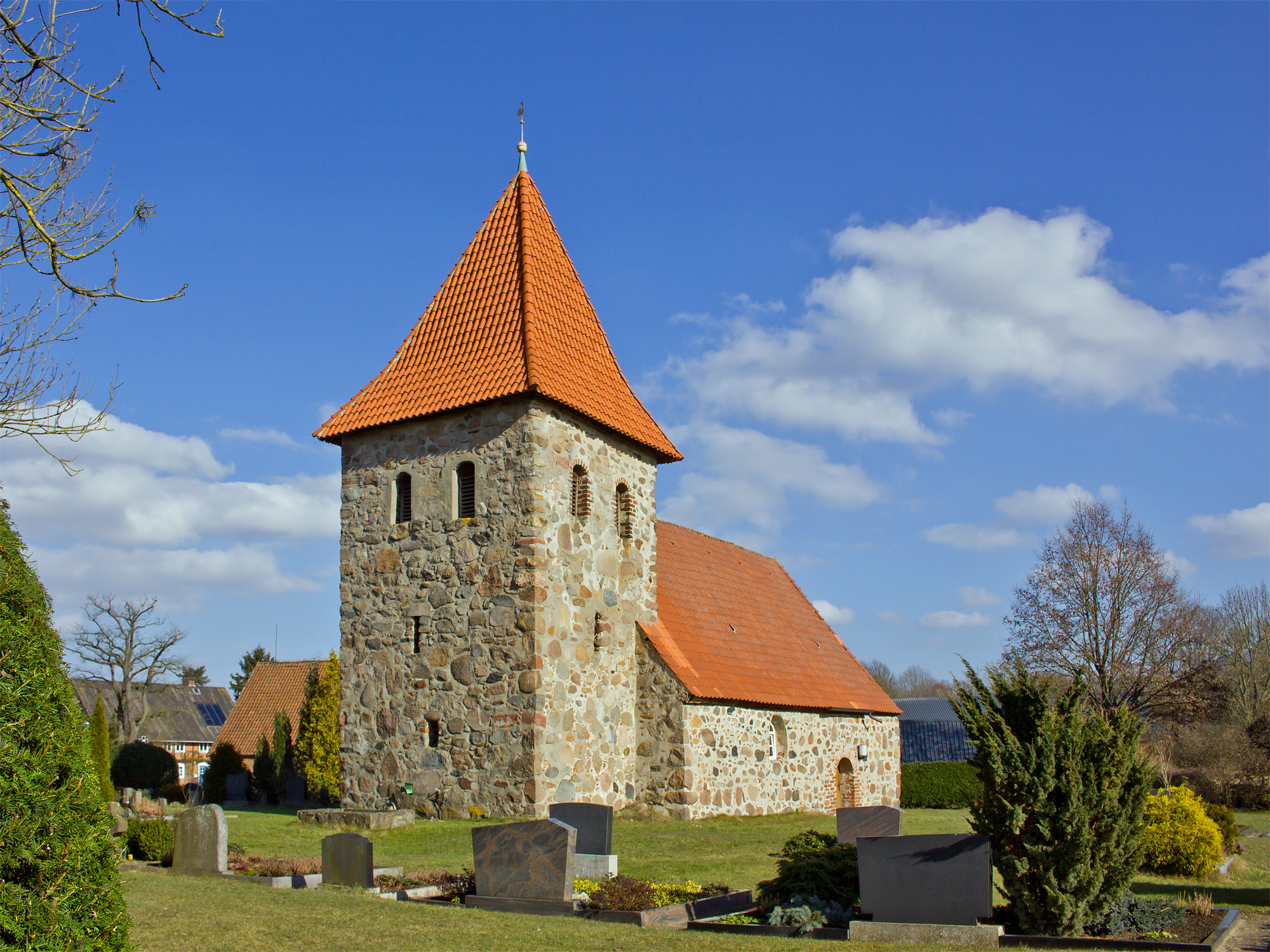 Chapel of the small village Nienbergen (district Lüchow-Dannenberg, northern Germany).